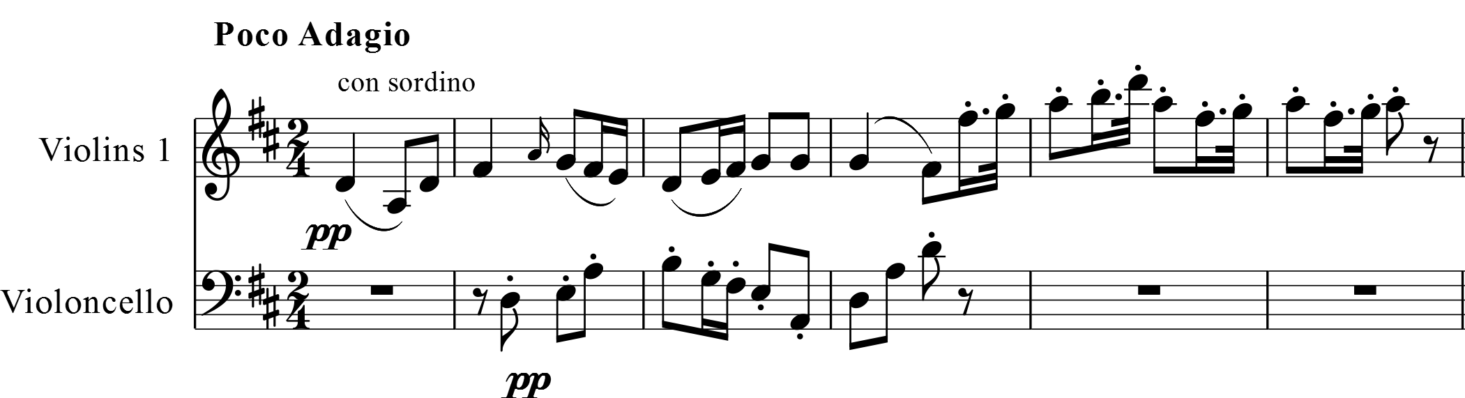 Joseph Haydn, Symphony No. 28, second movement, bar 1-6